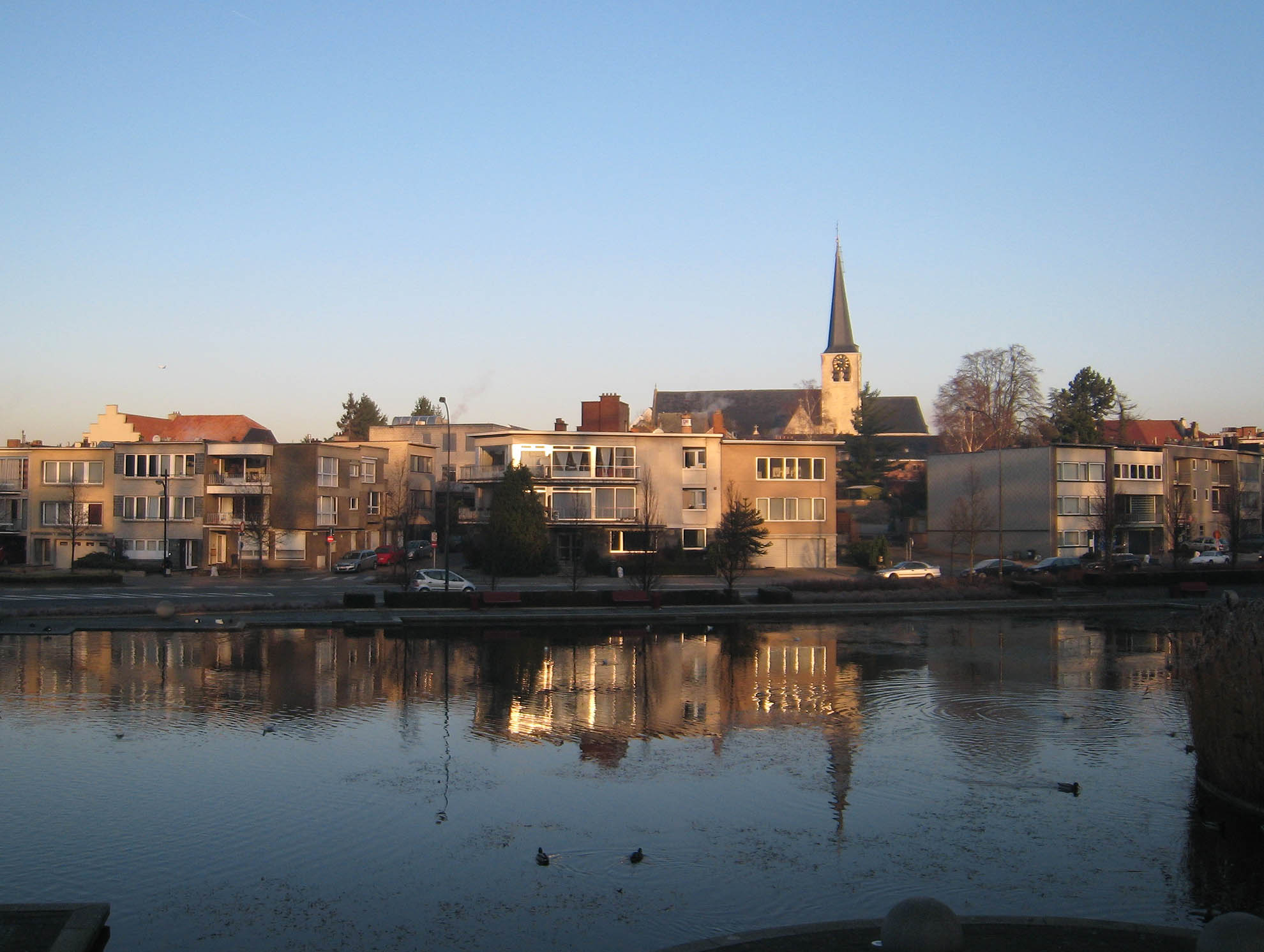 Looking north across the lake in the park towards the centre of Zaventem.